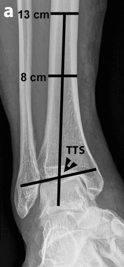 Weight-bearing radiography of a patient with varus ankle osteoarthritis showing the radiographic measurement of the frontal tibiotalar surface angle (TTS): the mid-longitudinal tibial axis was formed by a line bisecting the tibia at 8 and 13 cm above the tibial plafond.